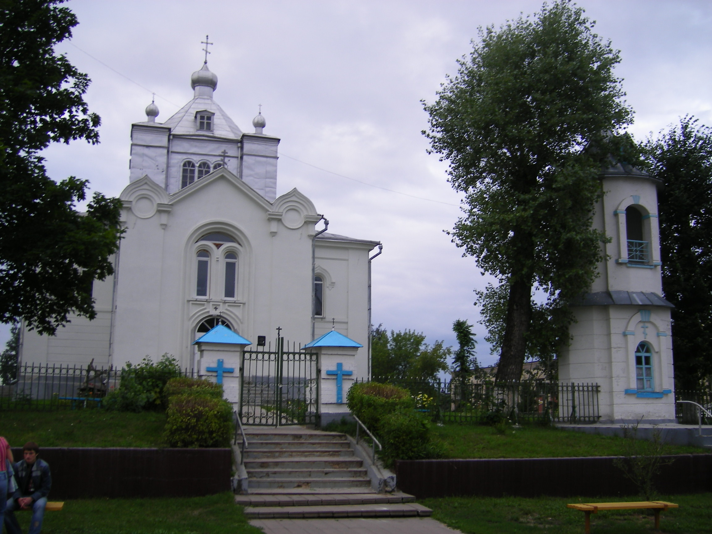 Dzyarzhynsk (before 1932 Koydanov), Pokrovskaya Church